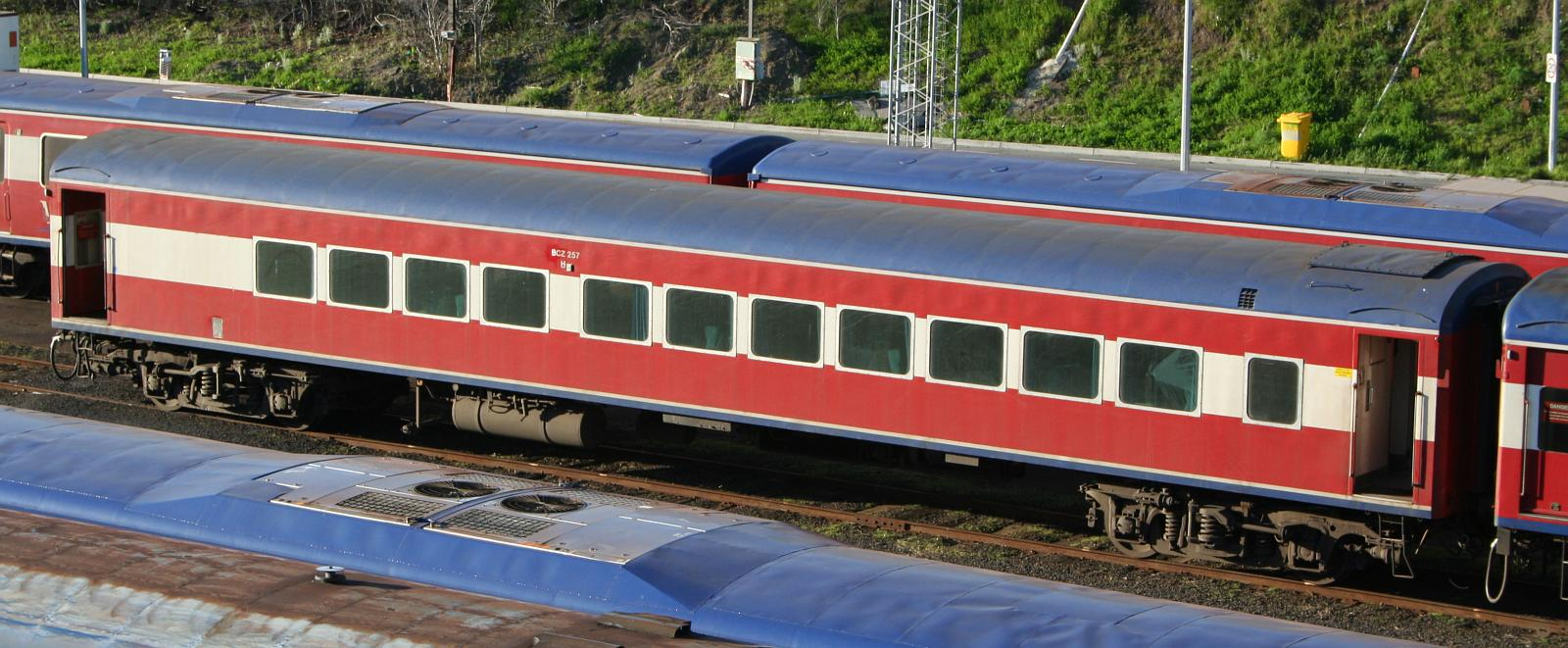 V/Line carriage BCZ257, ex ACZ type. Dudley Street, Melbourne, Victoria, Australia